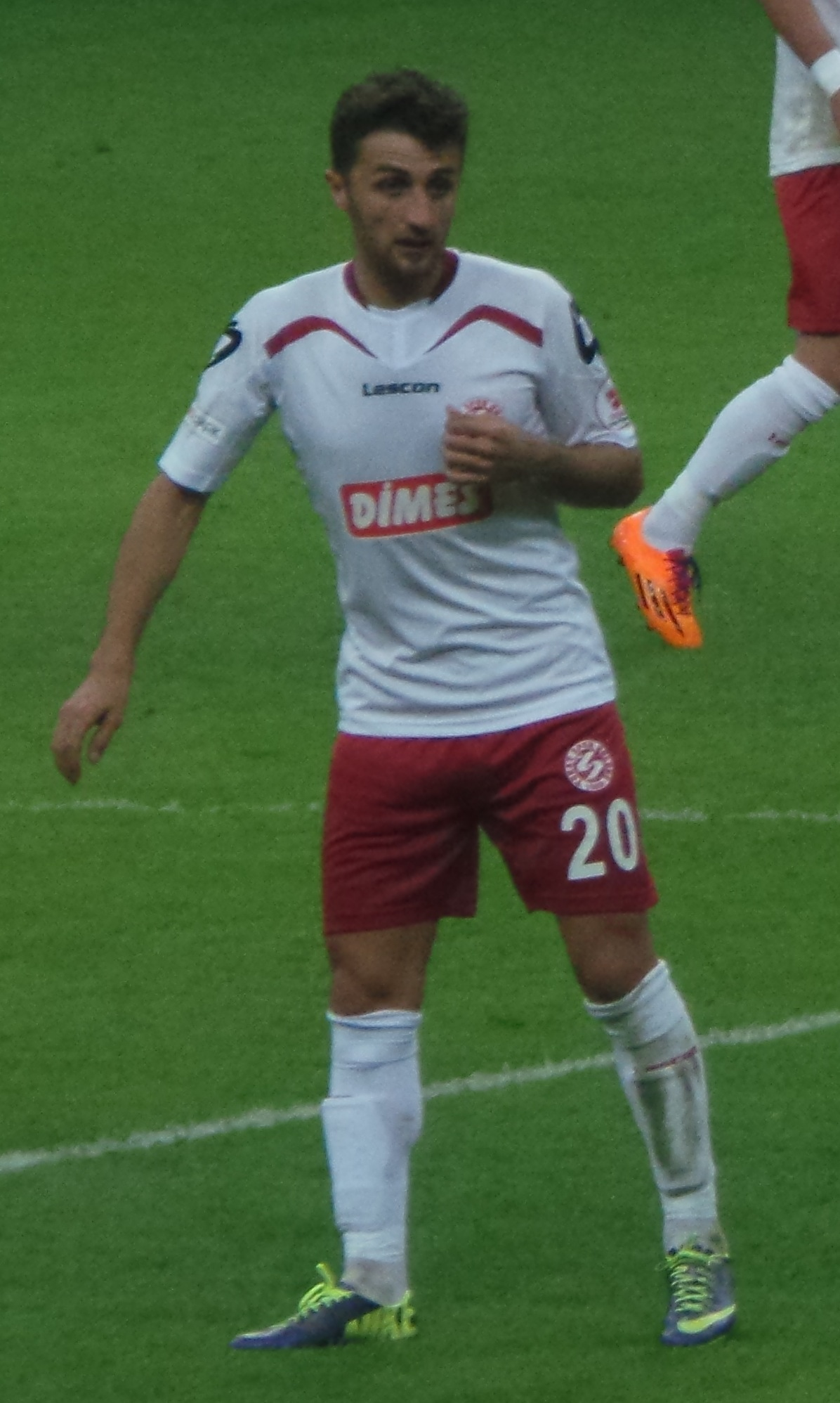 Haluk Ulaşoğlu